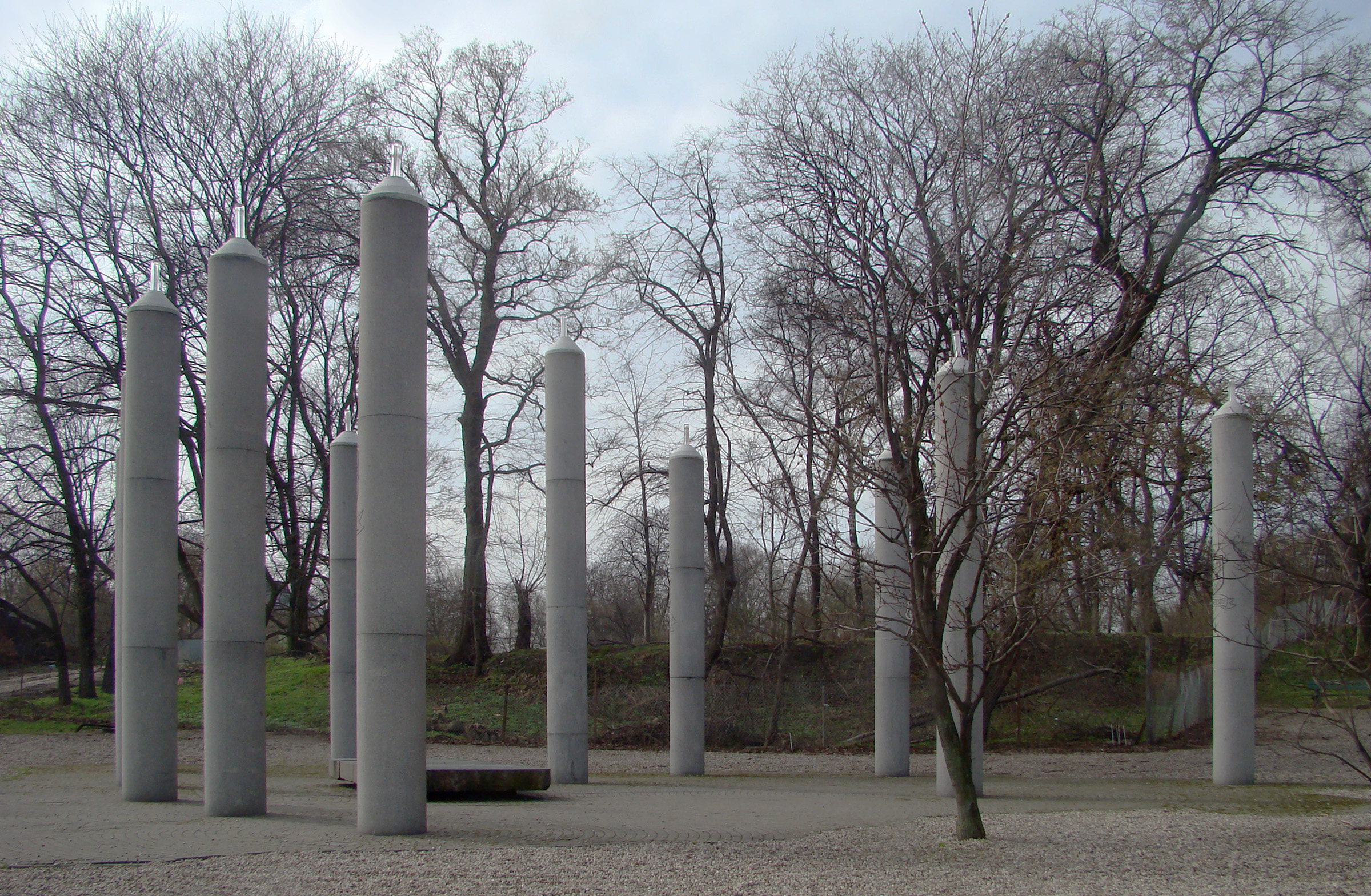 27th Wolhynian AK Infantry Division Monument in Warsaw - "candles"